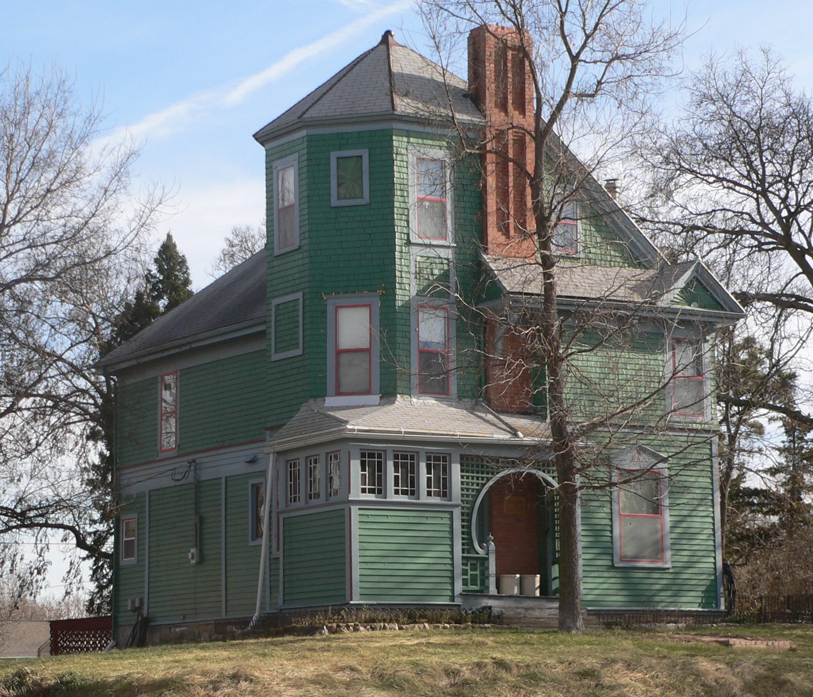 Burns-Durand House at 816 Pine Street in Yankton, South Dakota; seen from the northwest. The Queen Anne house was built in 1886. It is listed in the National Register of Historic Places.